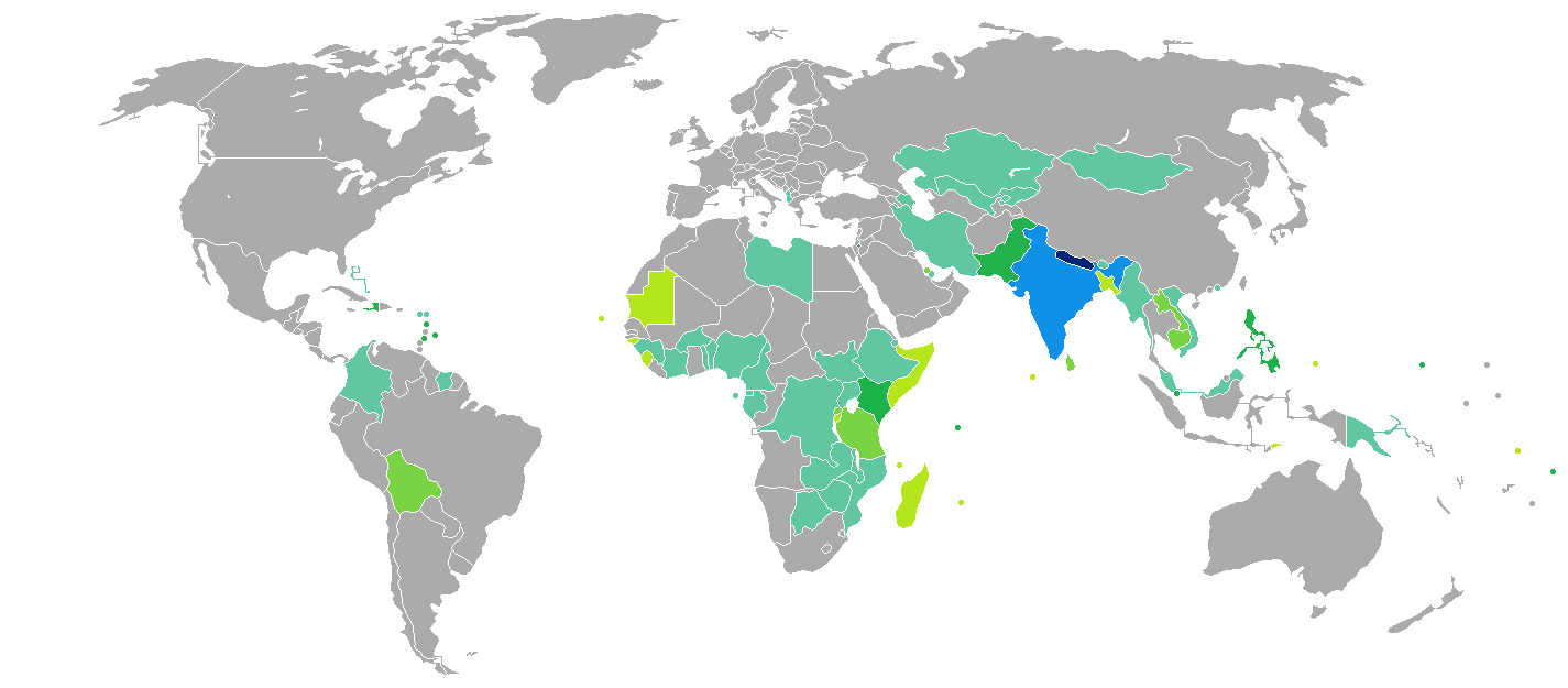 Visa requirements for Nepalese citizens Nepal Visa free access Visa on arrival eVisa Visa available both on arrival or online Visa required